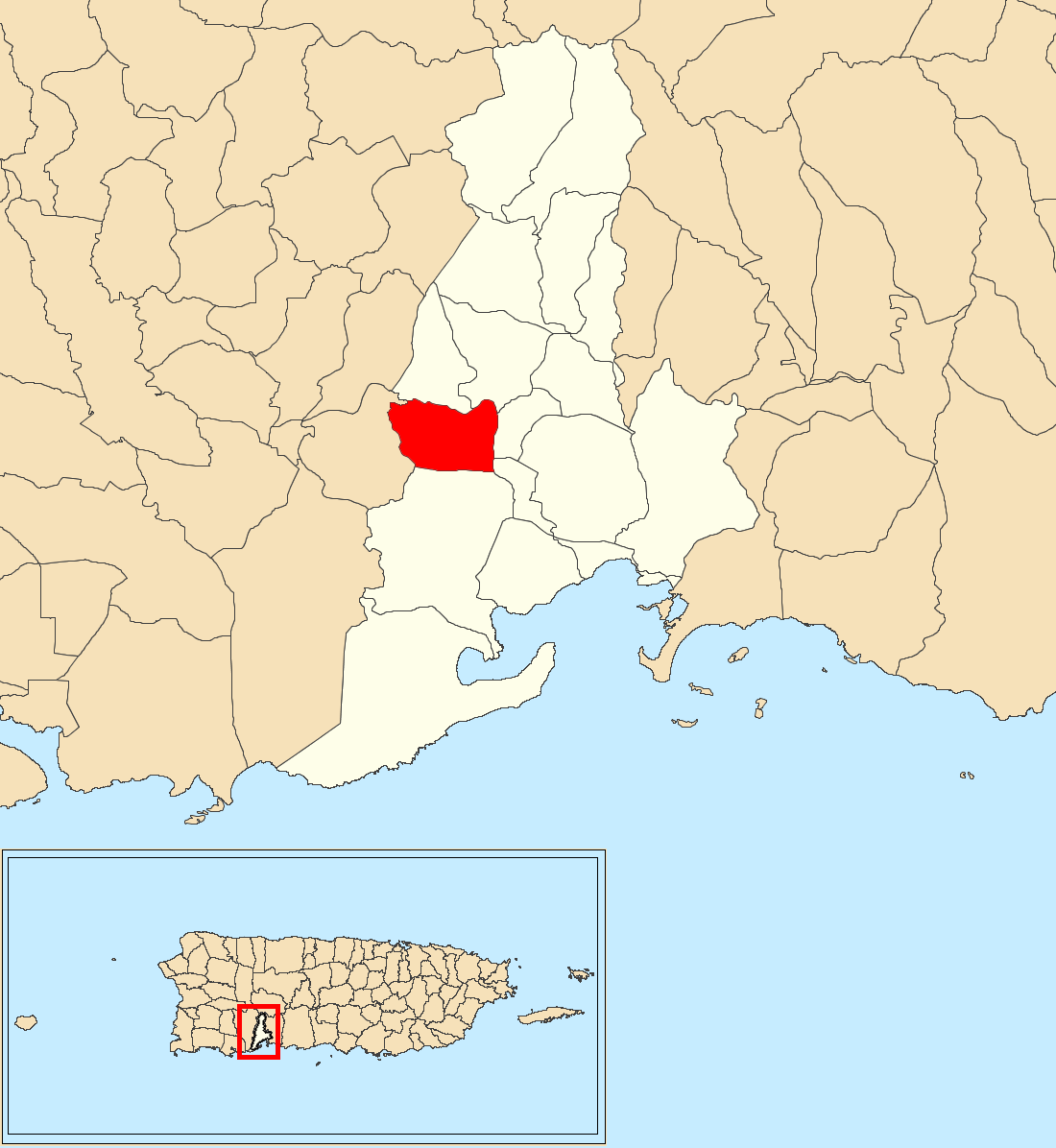 Quebradas, Guayanilla, Puerto Rico locator map